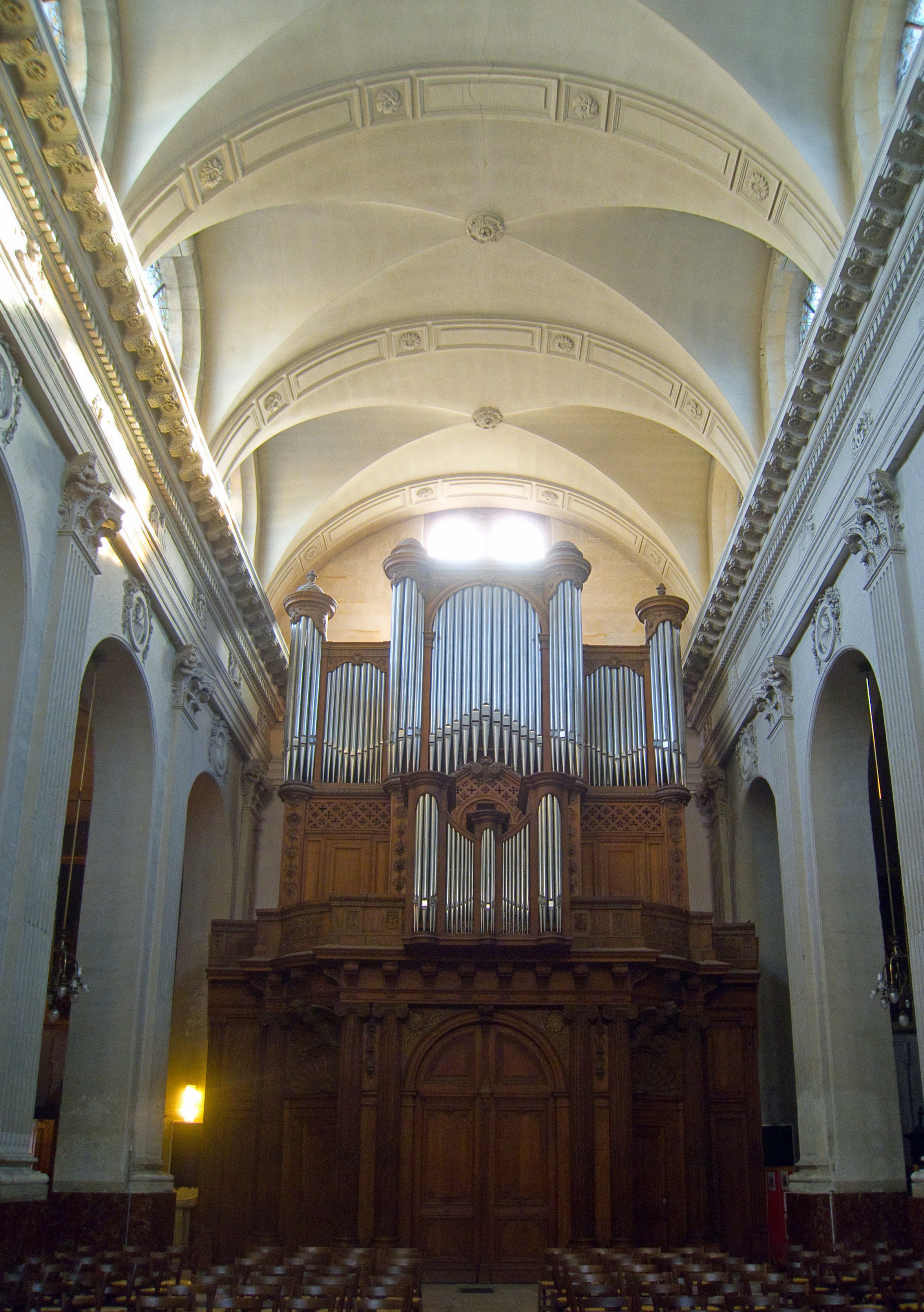 Église Notre-Dame-des-Blancs-Manteaux, Paris IVe arrondissement, France.